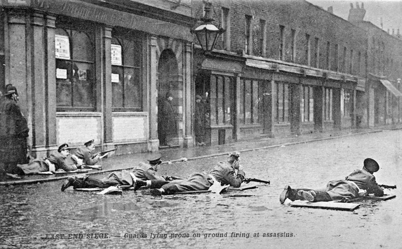 Soldiers from the Scots Guards open fire on the cornered anarchists in the Siege of Sidney Street in London, 3 January 1911.